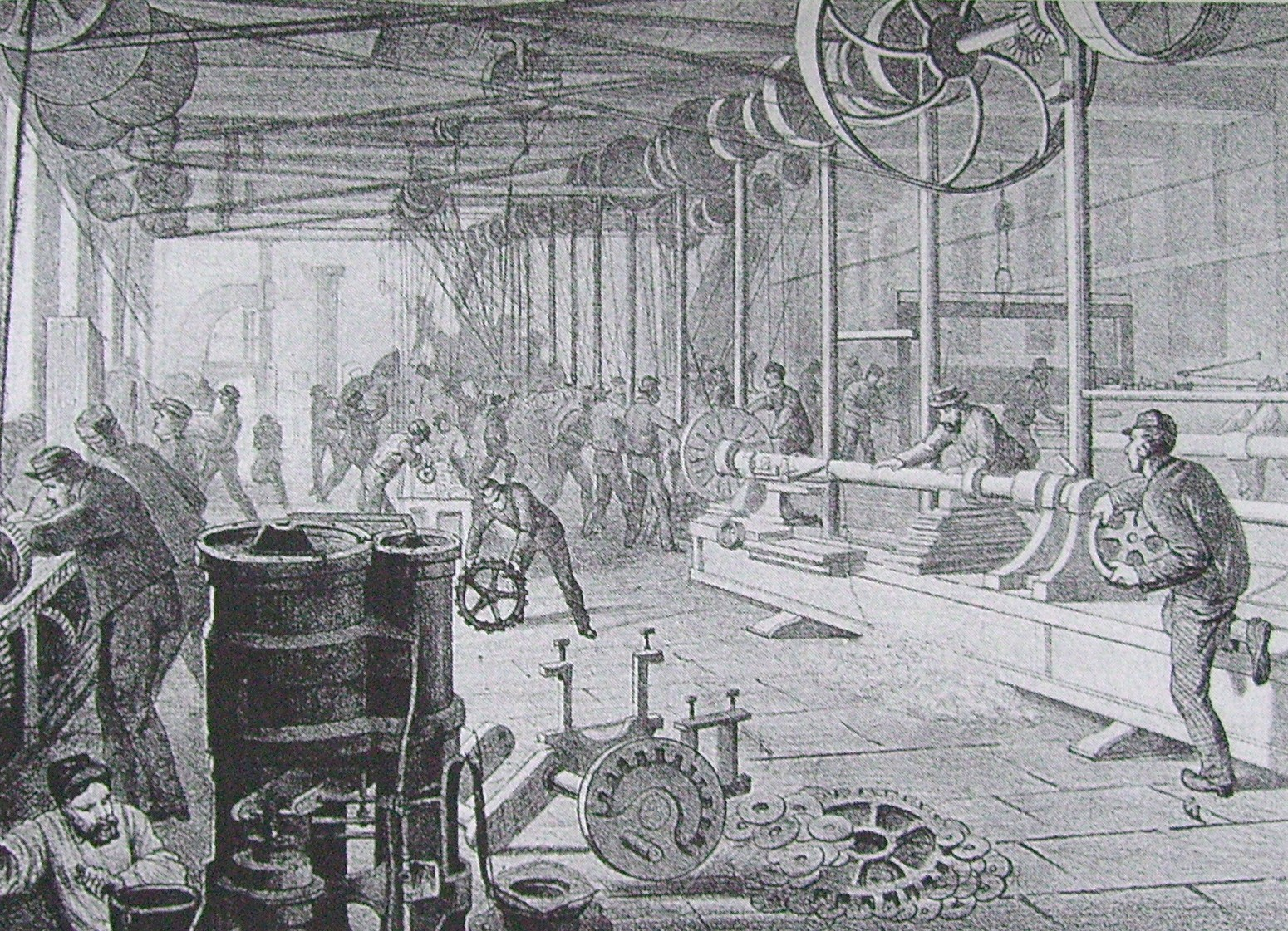 Picture of Göteborgs mekaniska verkstad